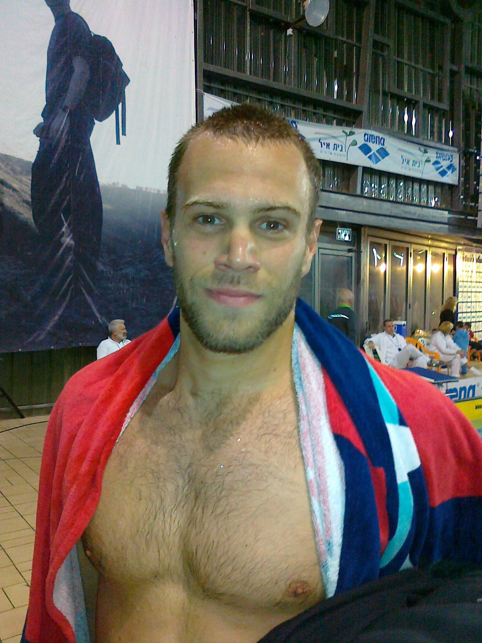 Gal Nevo, at Israel Swimming Championships (25-meter pool), Ashdot Yaacov, February 2013